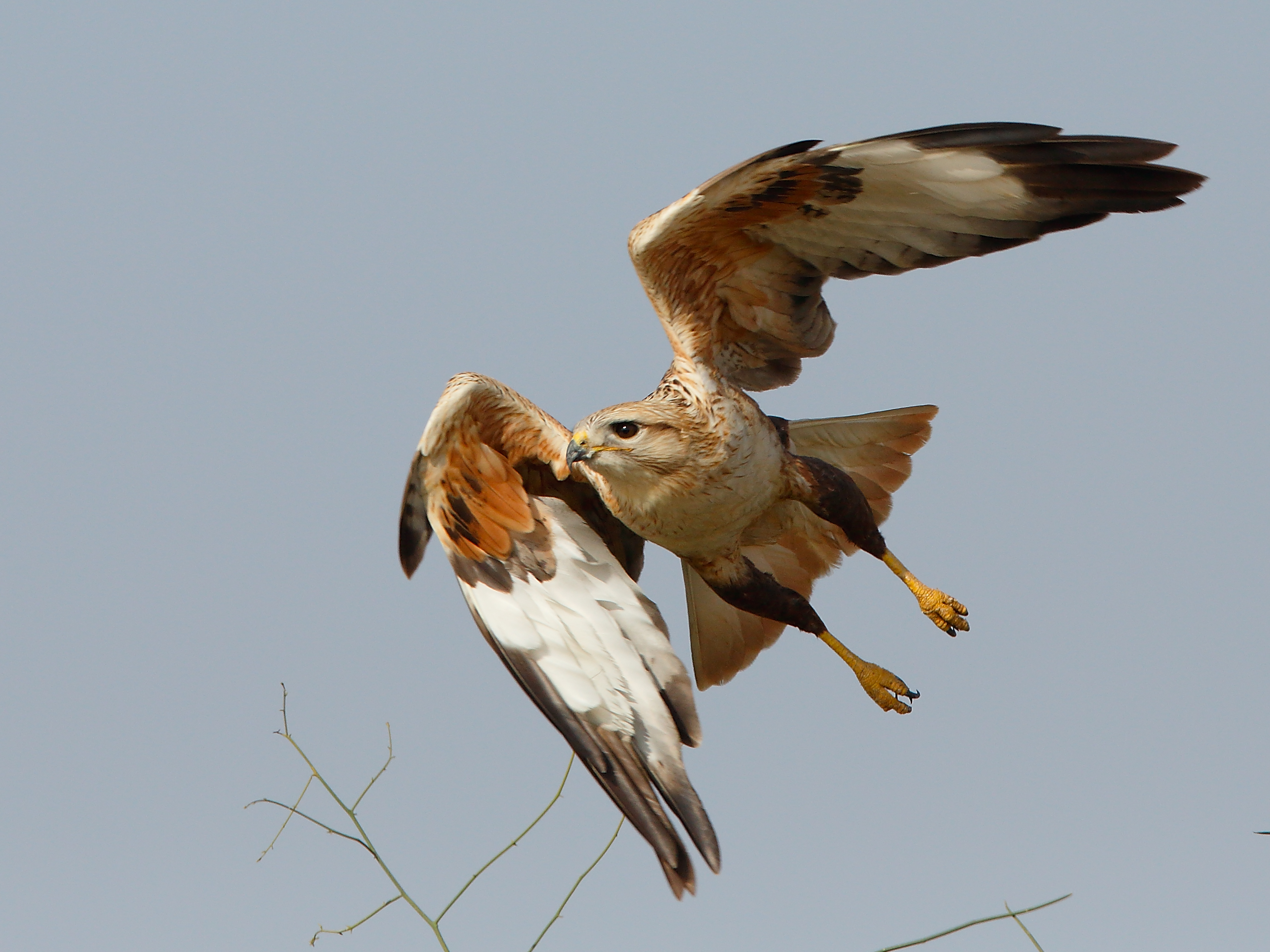 Long-legged Buzzard Buteo rufinus, Desert National Park, Sudasari, Rajasthan, India